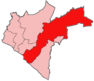 Map of Grand Bassa County, Liberia showing District #3; created with the GIMP. Made by User:Acntx.